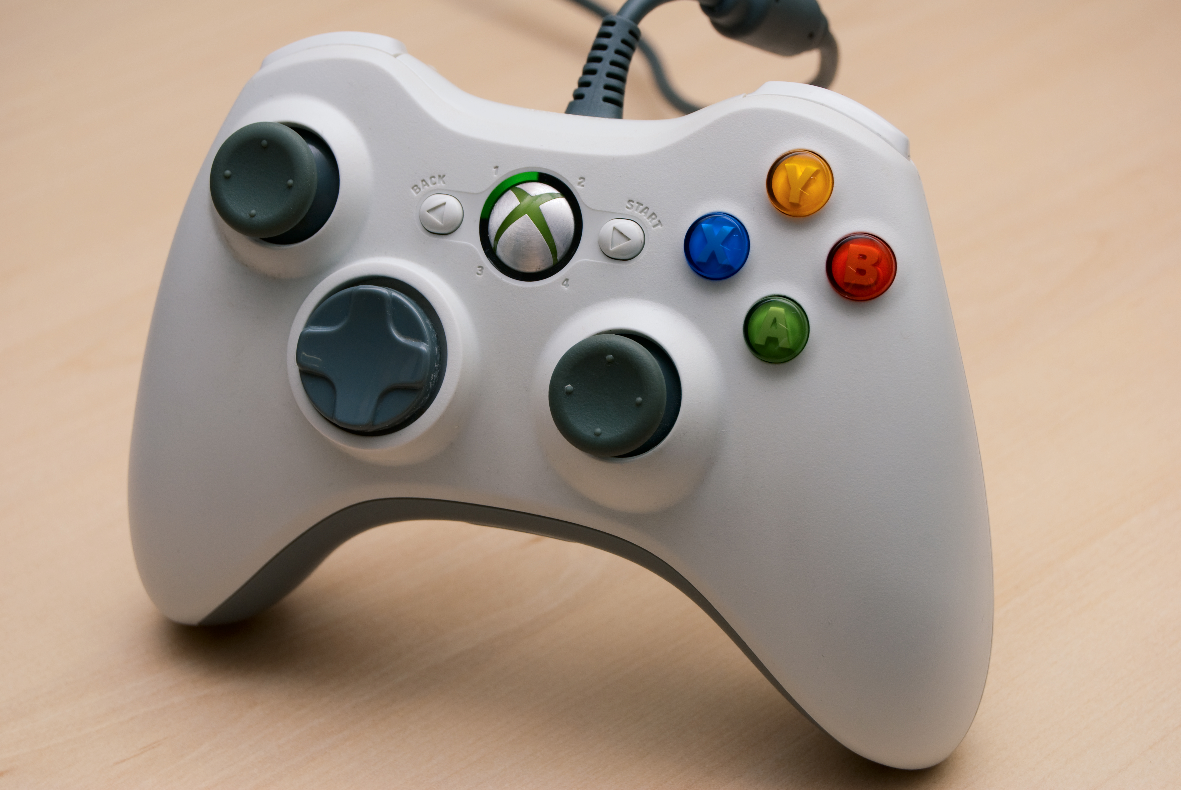 XBox 360 wired controller.